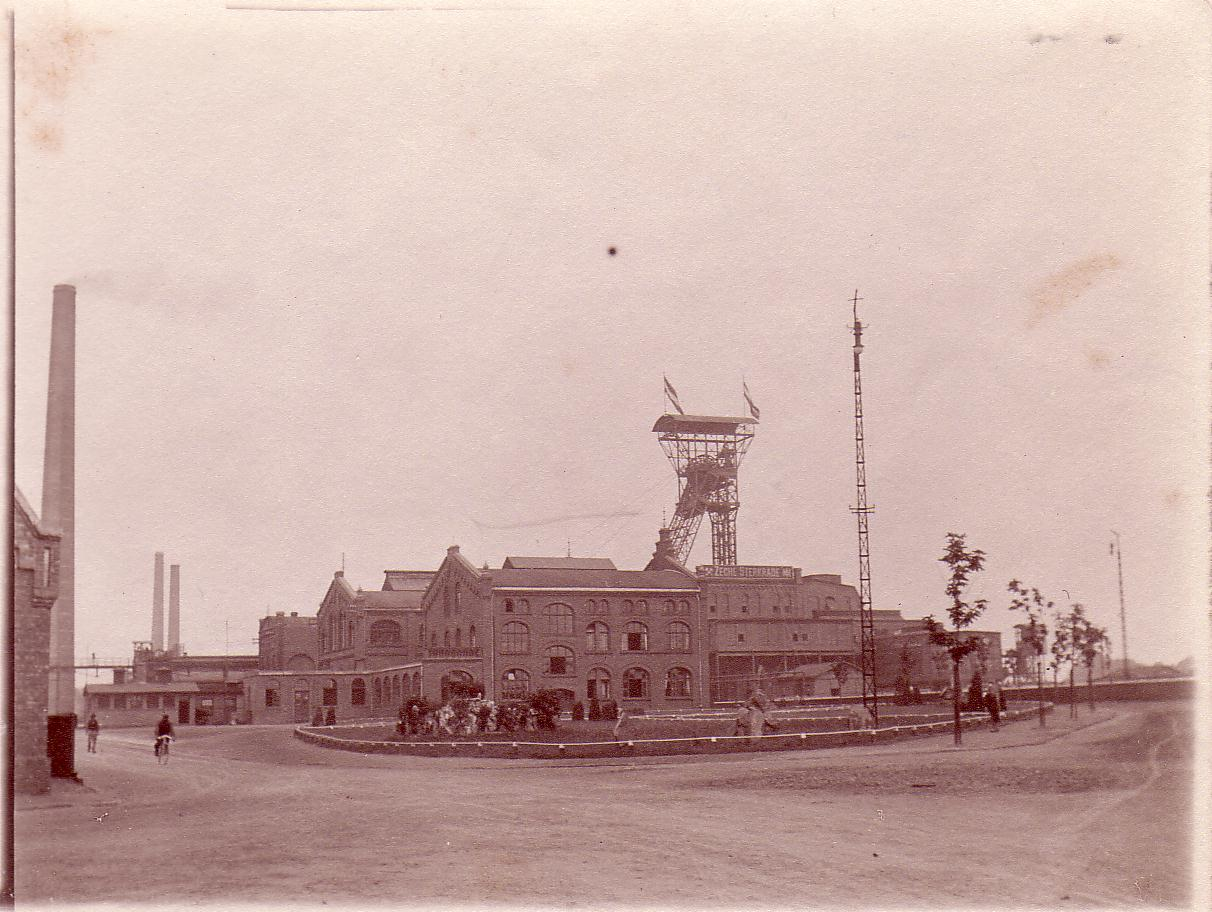 Zeche Sterkade / Sterkade Colliery. This amateur photograph was taken by an apprentice coal mining engineer, Charles Sydney Smith, of Derby, England, on a visit circa 1910-1913.